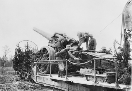 AWM caption : "France. 1918. The crew of a German Army heavy railway gun laying their weapon."